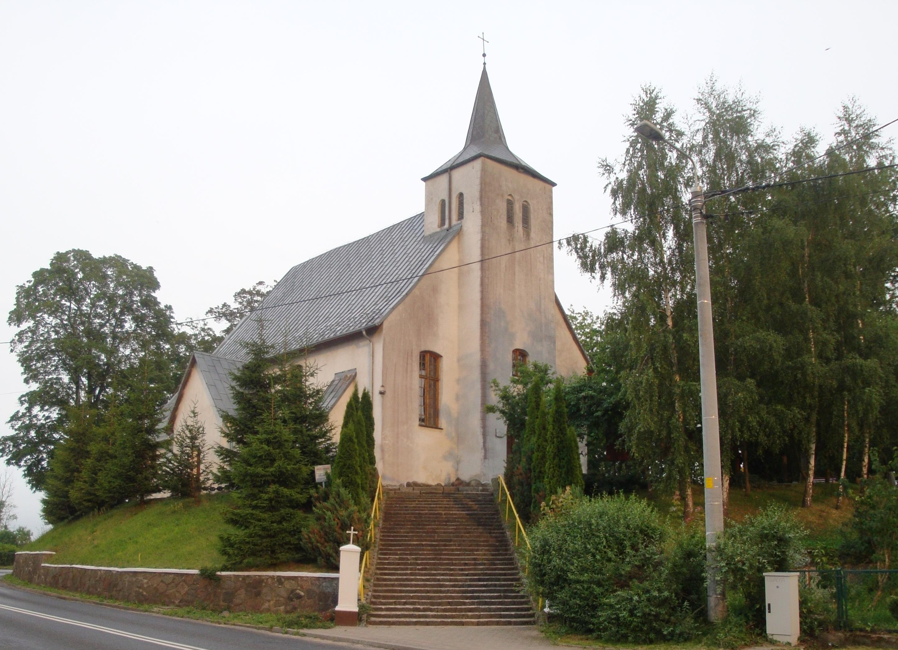 Charbrowo-village in Gmina Wicko, Poland. St. Joseph church